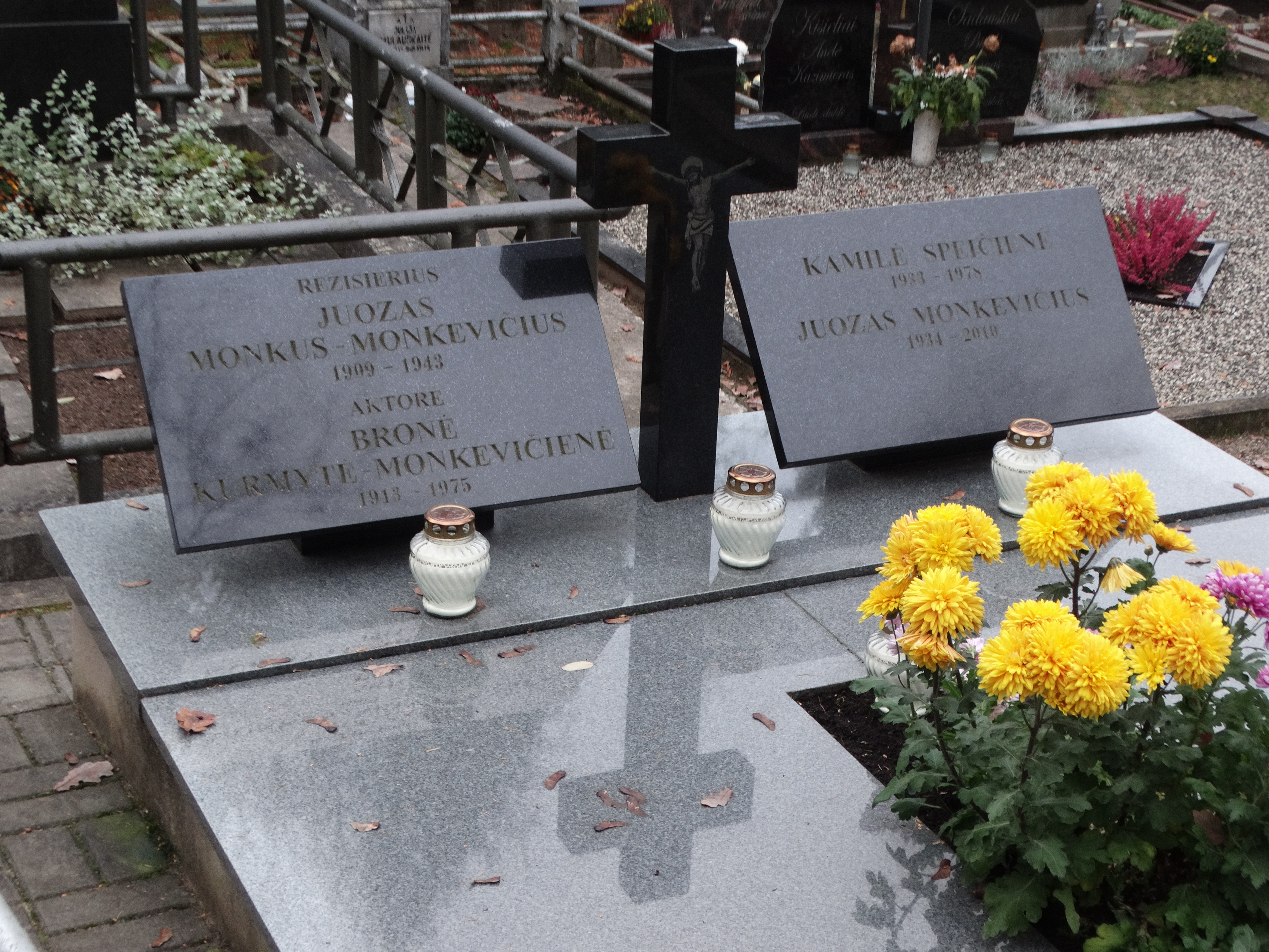 Tomb of Bronė Kurmytė, Juozas Monkus, Eiguliai cemetery, Lithuania